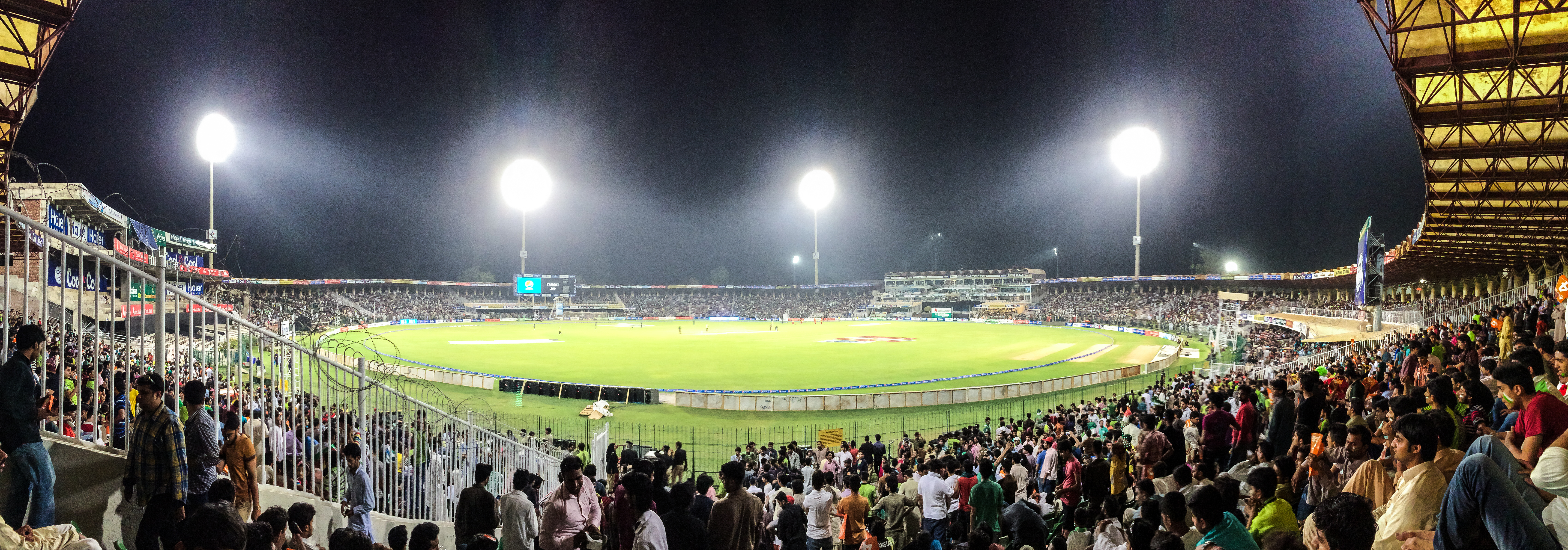 Gaddafi Stadium This is a photo of a monument in Pakistan identified as the PB-U-39